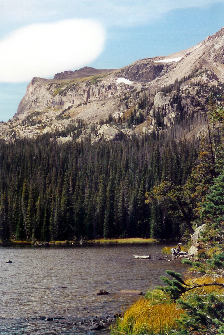 Ouzel Lake and Mahana Peak, Rocky Mountain National Park, Colorado, USA (misidentified as Bear Lake at source site -- compare to photos at